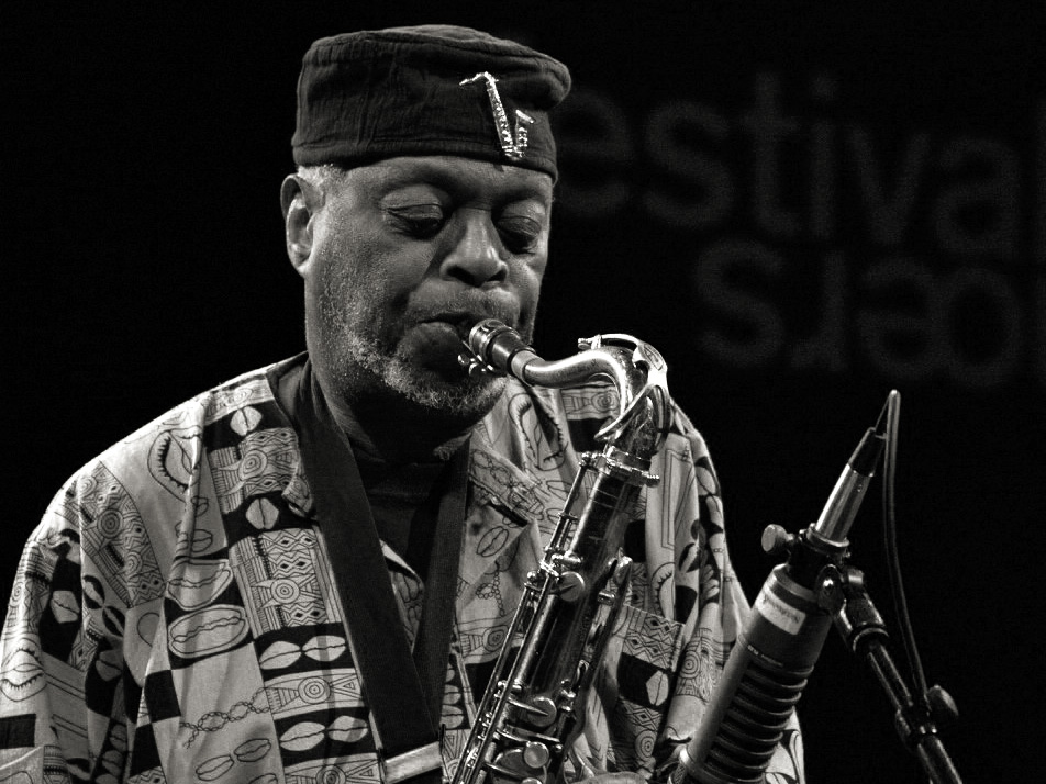 Dewey Redman at moers festival 2006 own photo, june 5, 2006- photo: nomo/michael hoefner